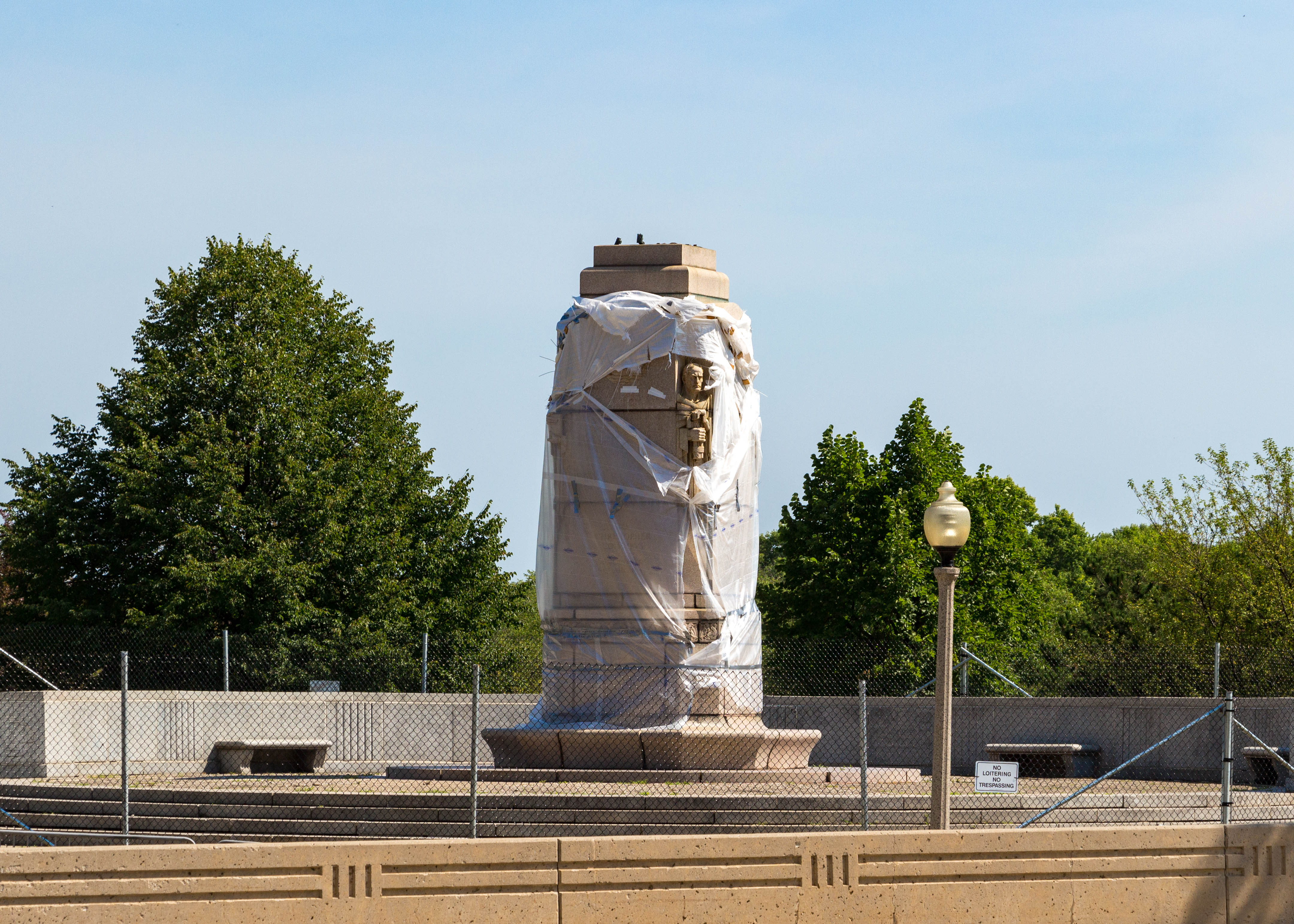 Base of statue of Christopher Columbus by Carlo Brioschi (1879-1941) in Grant Park, after removal on July 24, 2020. Grant Park, Chicago, Illinois.